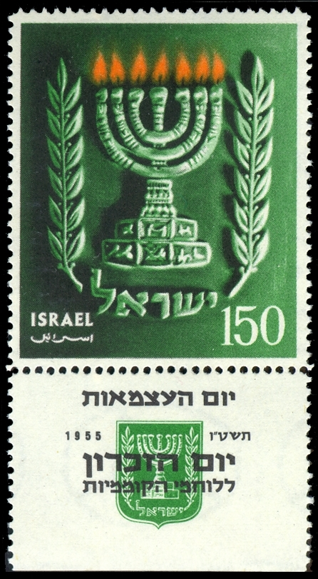 Seventh Independence Day stamp - 150 mil. Inscription on tab: "The Seventh Independence Day", "Memorial Day for the Fighters for Independence"